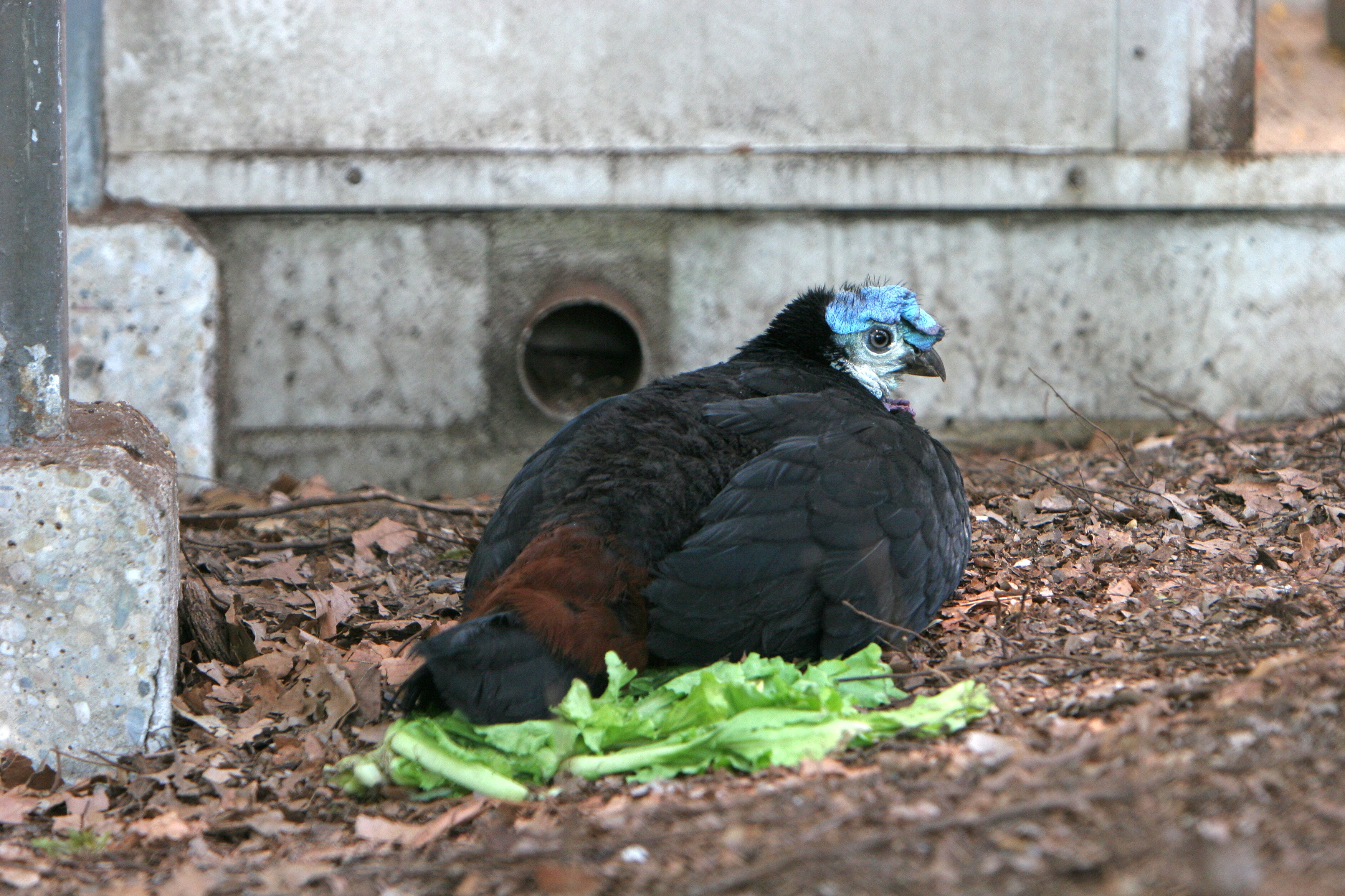 Wattled Brush-Turkey at Artis Zoo, Amsterdam, Netherlands.